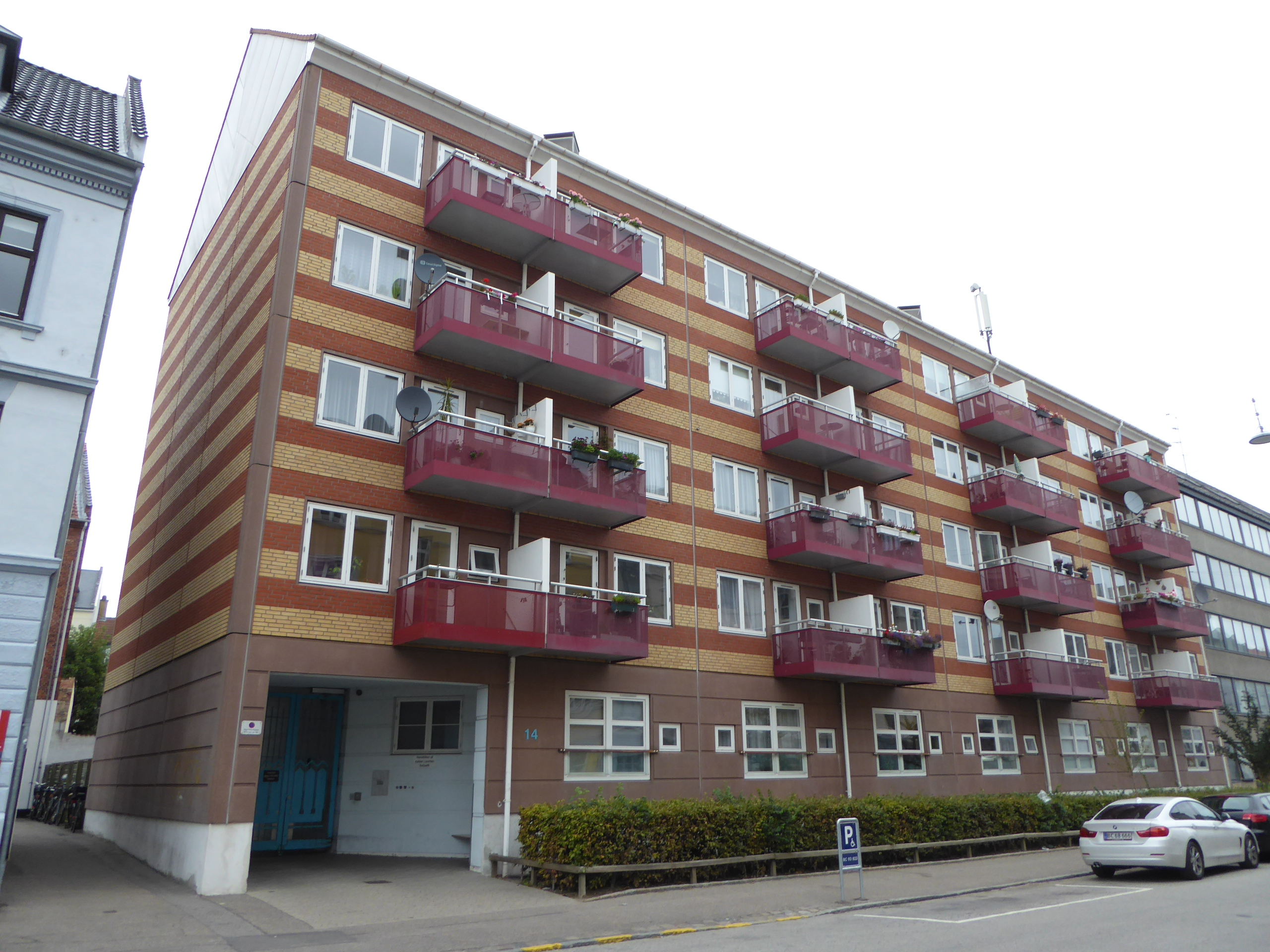 Raoul Wallenberg Boligerne, homes for senior citizens at Nygårdsvej in Østerbro in Copenhagen.